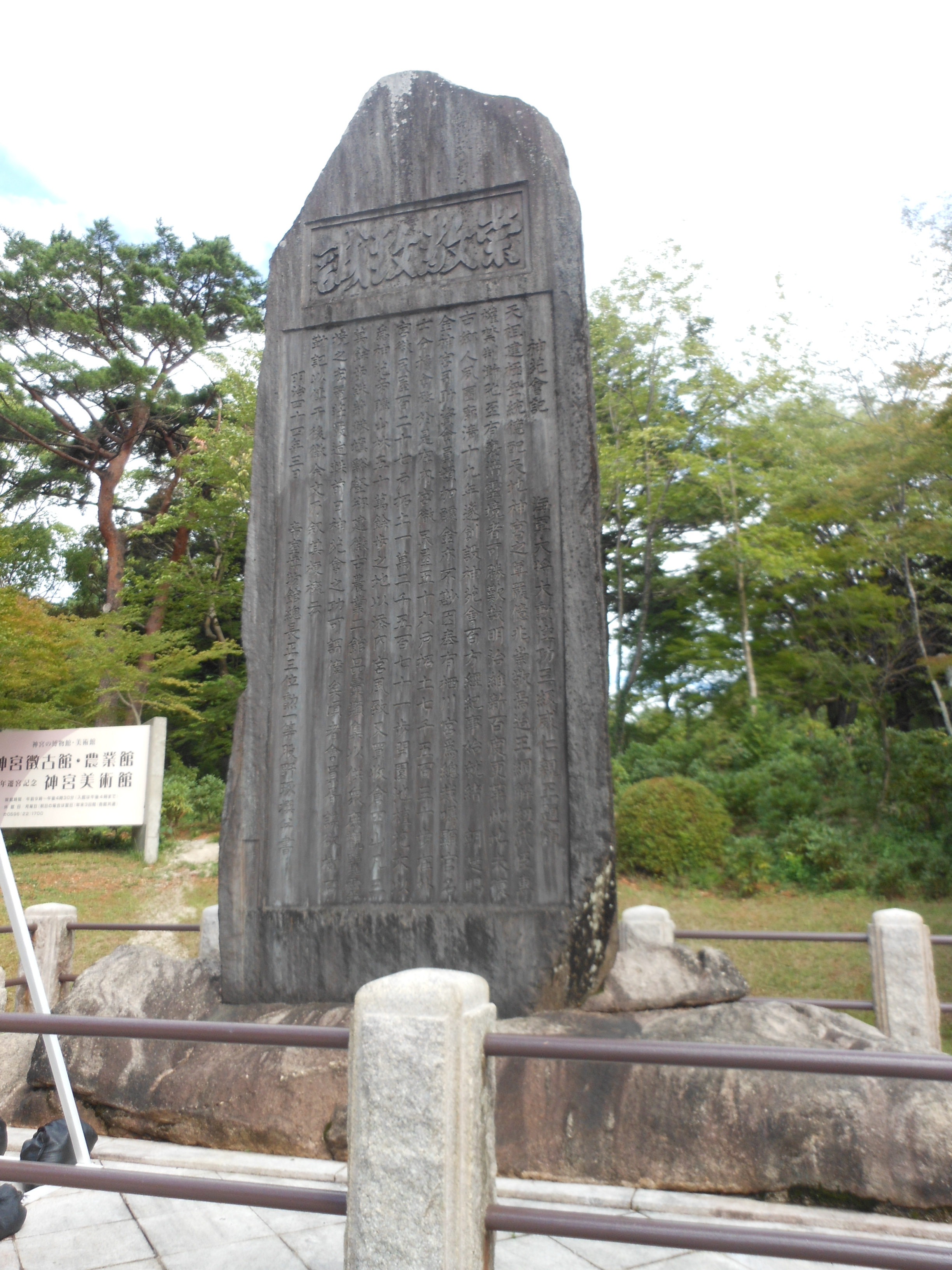 This is the monument of Shin'enkai, which was aｎ incorporated foundation in Ise, Mie, Japan.